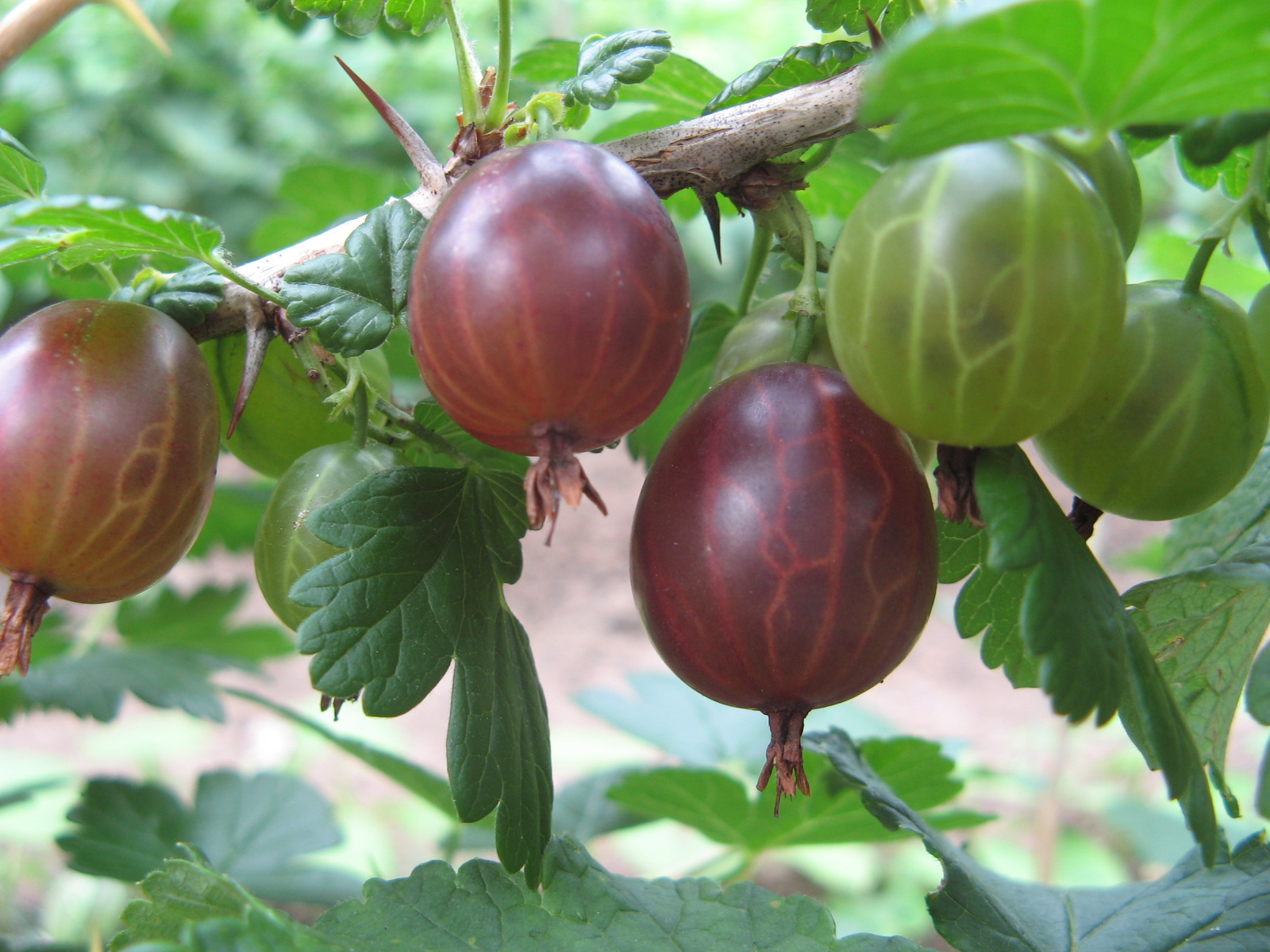 Gooseberries